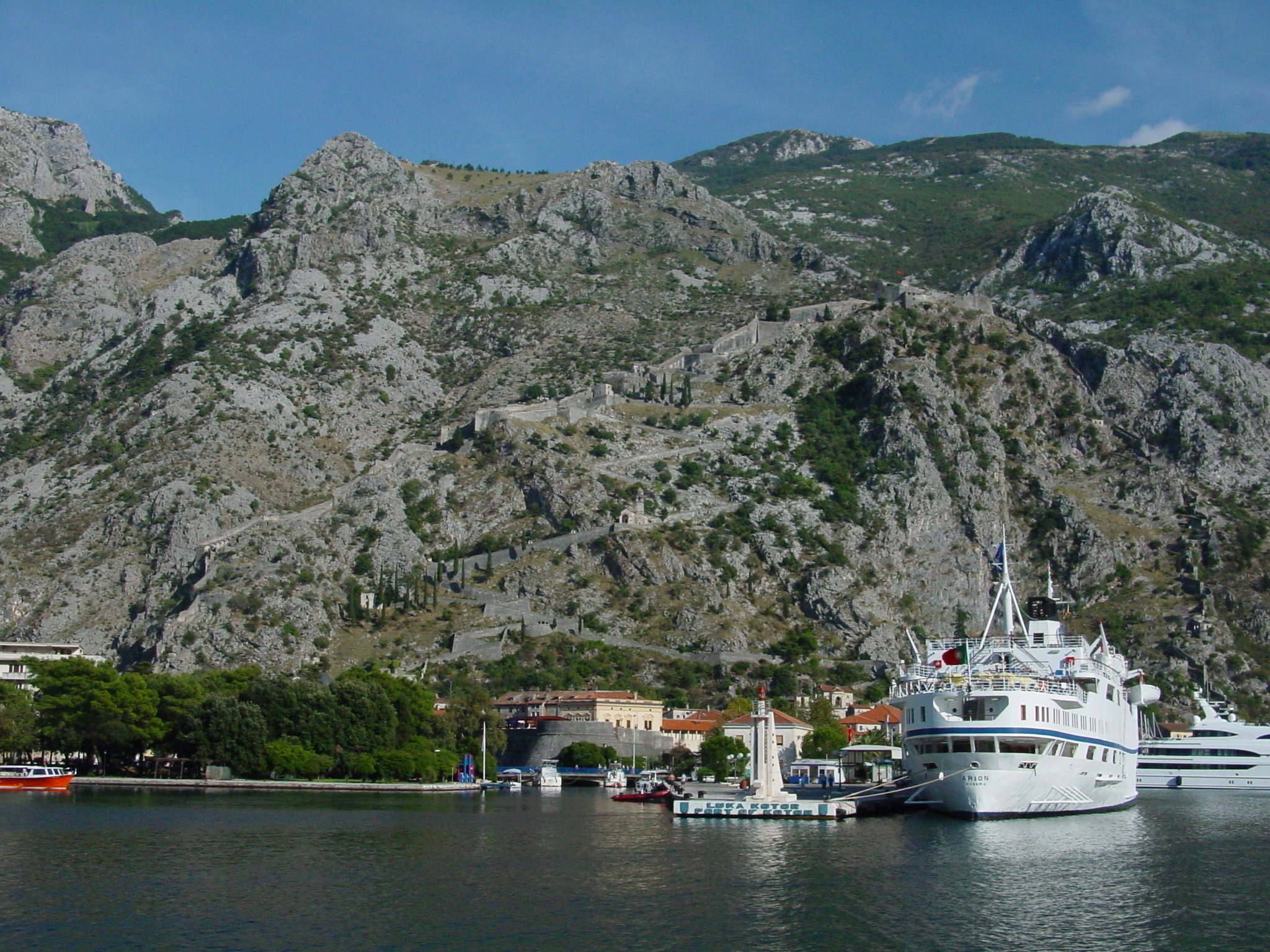 Castle of St John, Kotor, Montenegro Srpski (latinica): Tvrđava sv. Ivana, Kotor, Crna Gora